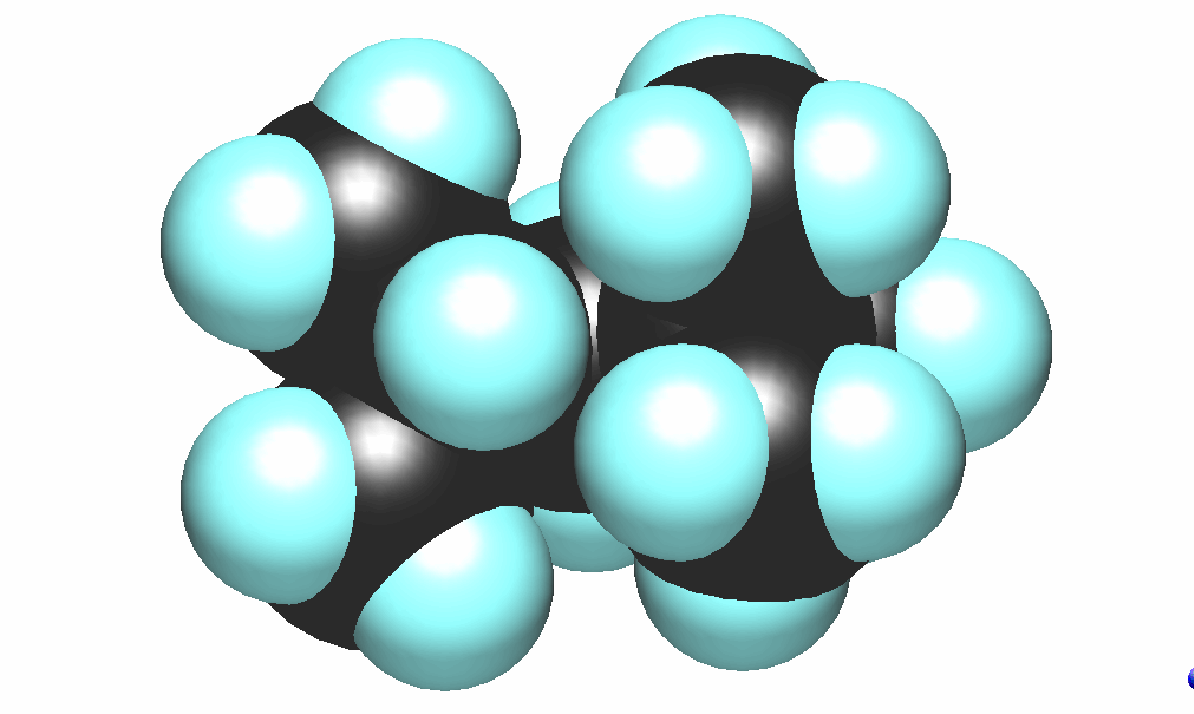 Iso-octane, 2,2,4-trimethylpentane